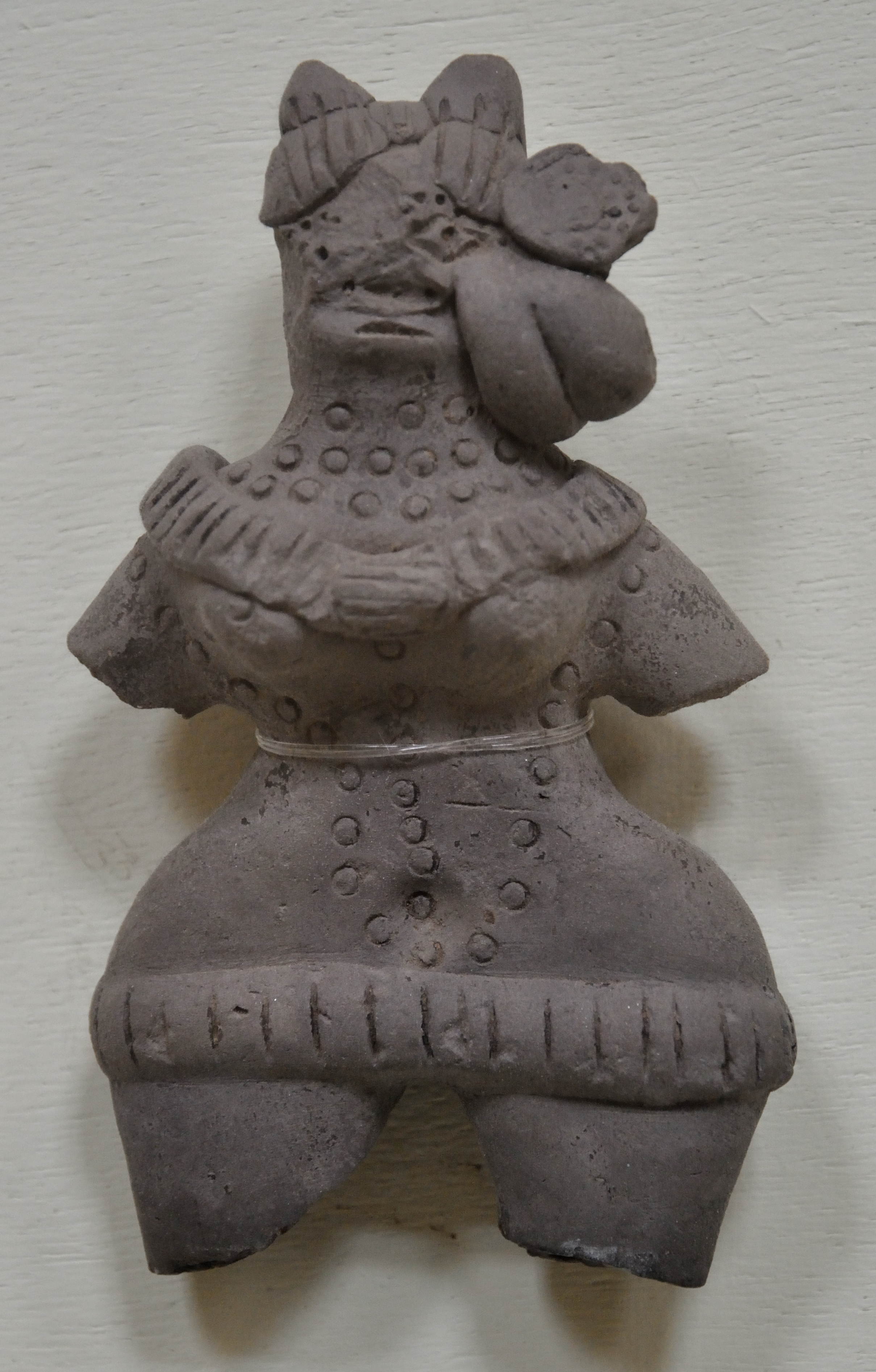 This artefact resides at the Government Museum, (hi: Rashtriya Sangrahalaya) formerly The Curzon Museum of Archaeology, Museum Road or Murari Lal Rajpal road, Dampier Nagar, Mathura, Uttar Pradesh, India. This museum is administrating by the State Government of Uttar Pradesh of India.